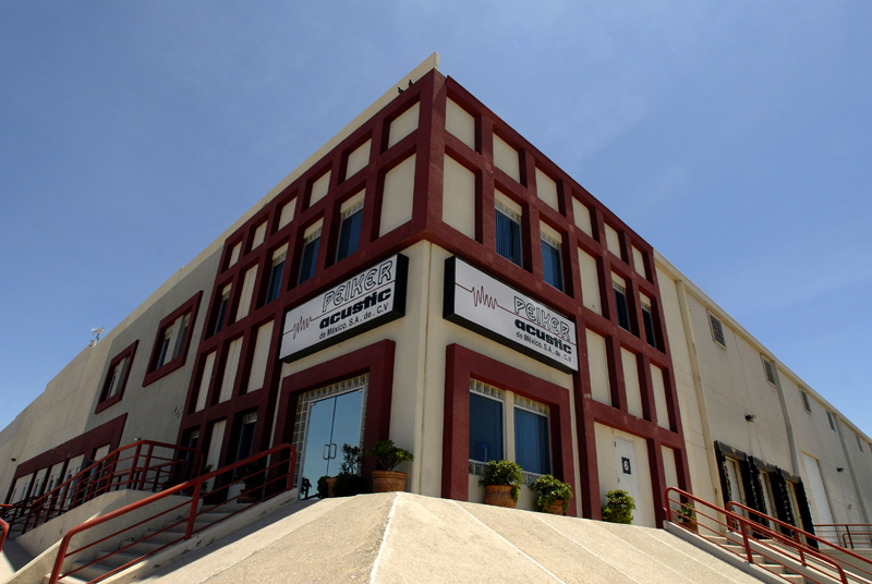 Department of PEIKER acustic de Mexico S.A. de C.V. in Ciudad Juarez